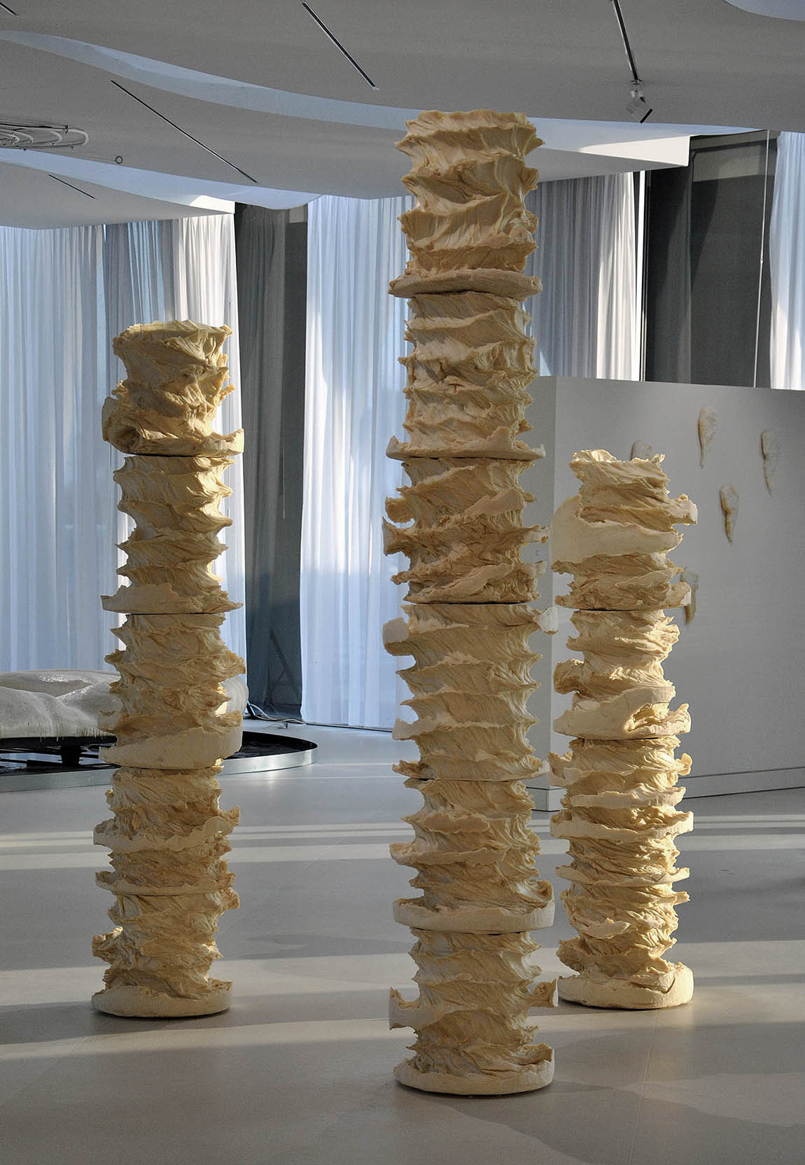 View Jean Cocteau Museum, 2016 Imprints in soap of Marseille, variable dimensions